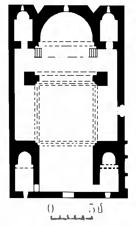 Plan of S. Poxos-Petros church in Tatev monastery